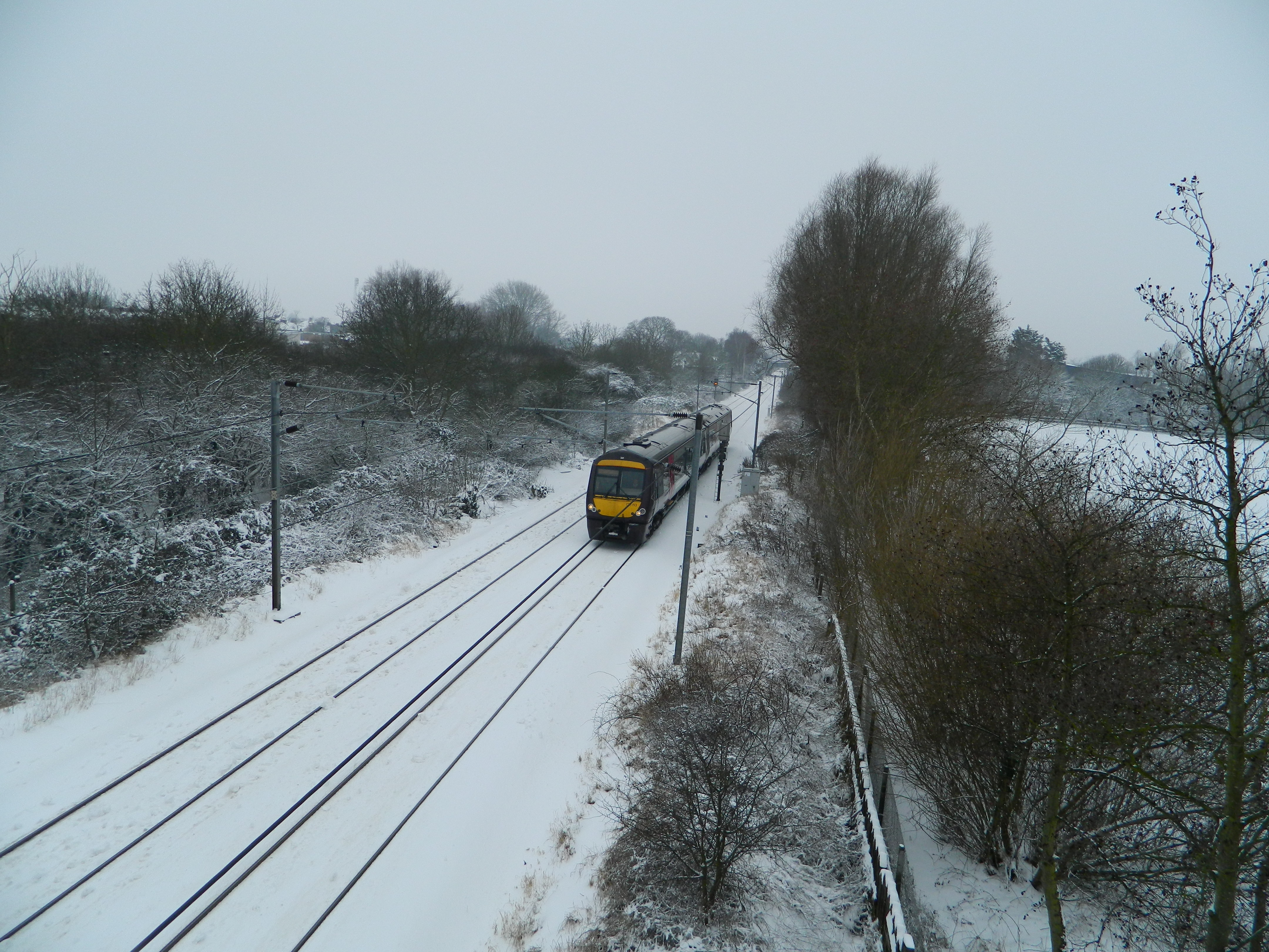 Taken in Cambridge - this CrossCountry 170113 heads toward Ely on a service to Birmingham New St.